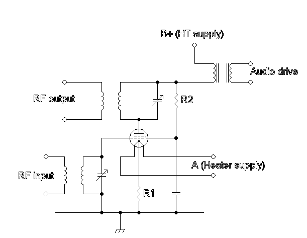 A simple anode/transformer modualtion stage using a tetrode